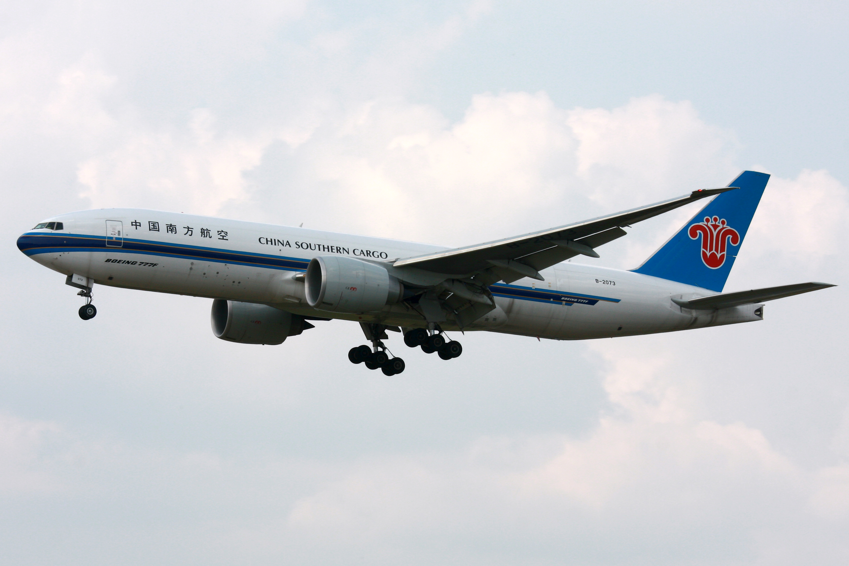 A Boeing 777F of China Southern Airlines landing at Frankfurt Airport